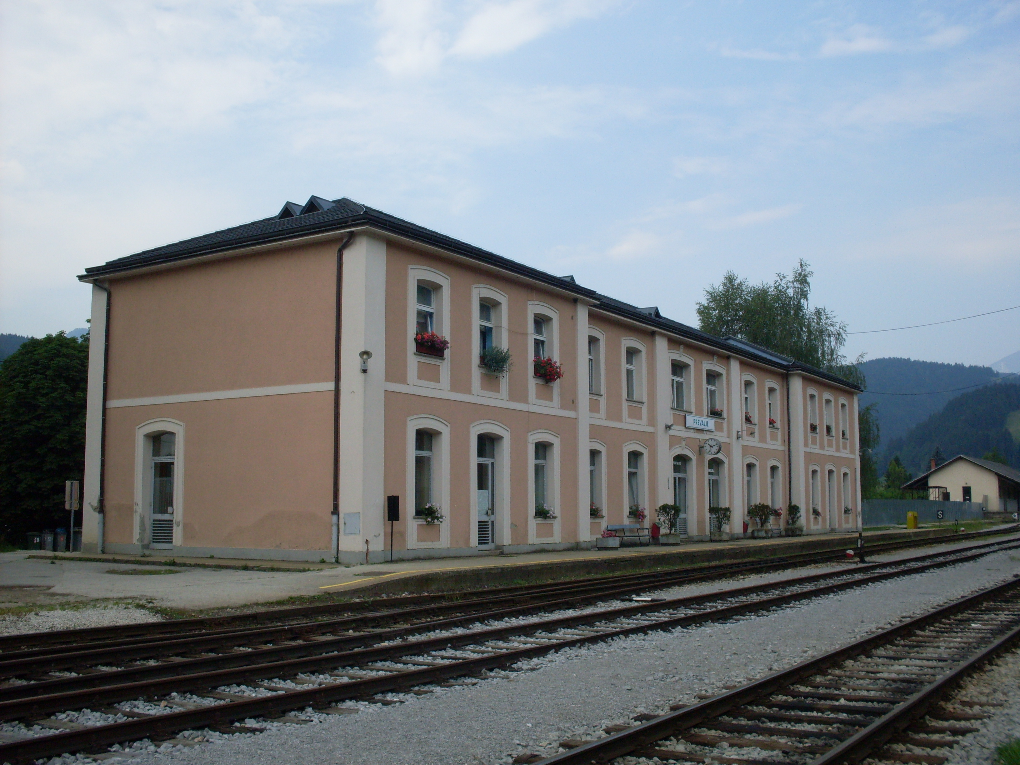 Train station in Prevalje, Slovenia